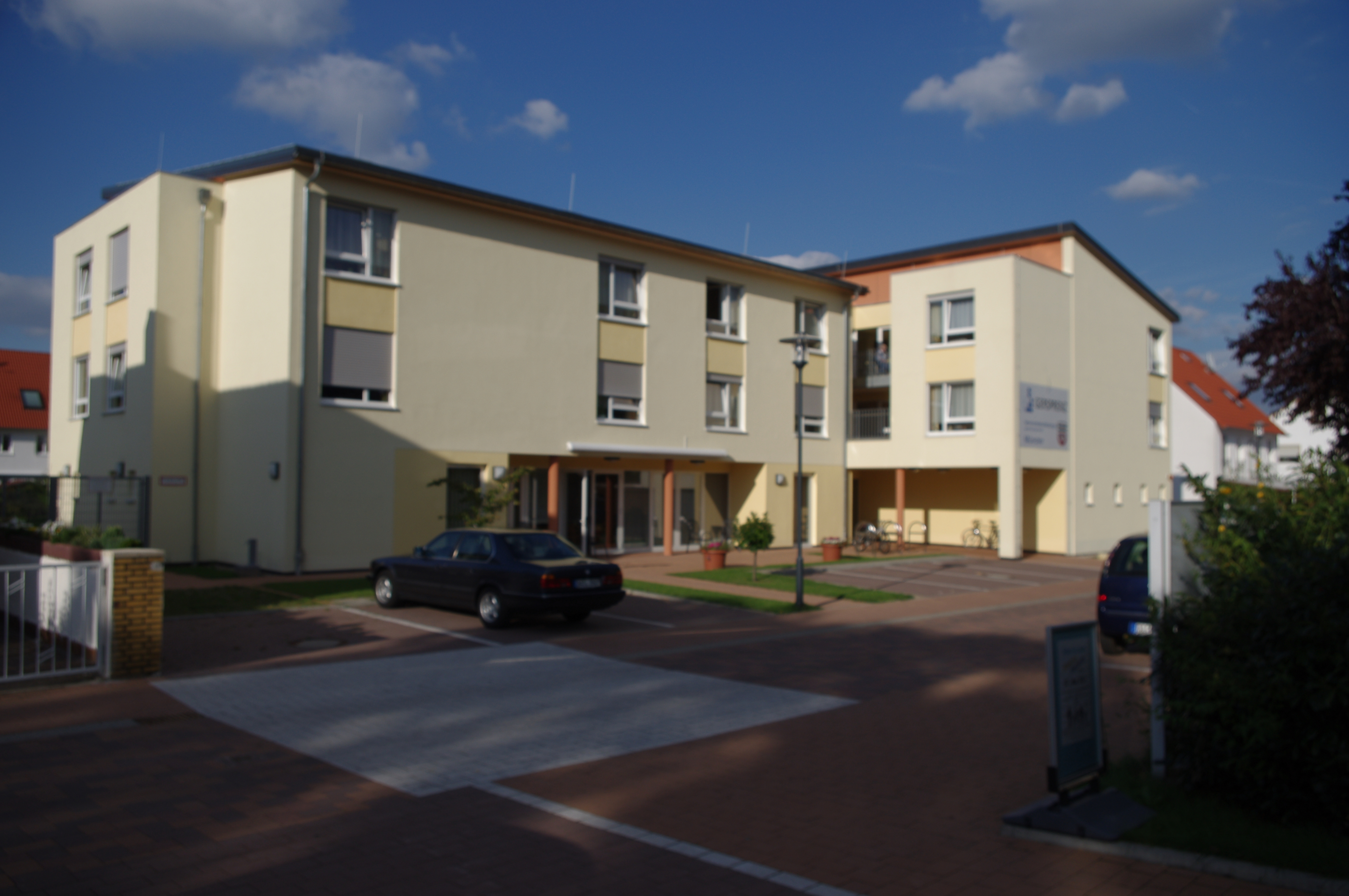 Nursinge house